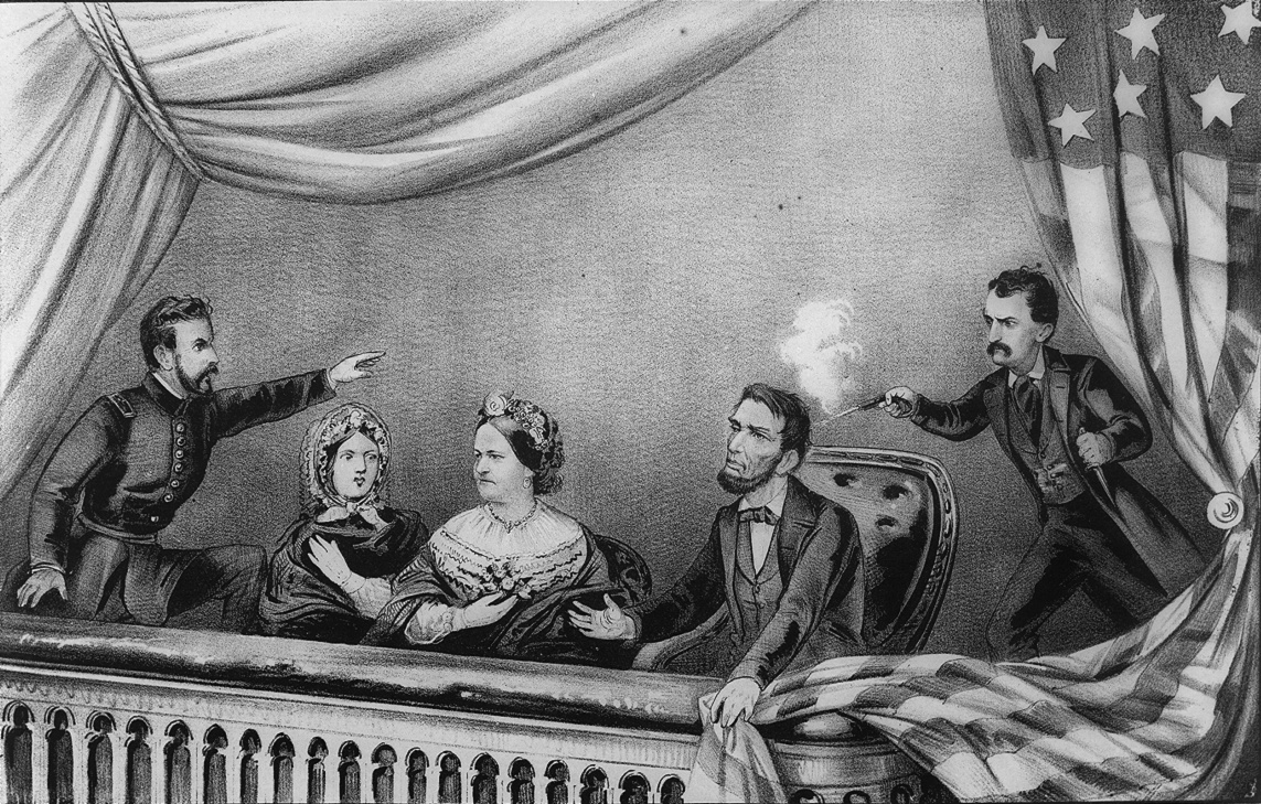 Lithograph of the Assassination of Abraham Lincoln. From left to right: Henry Rathbone, Clara Harris, Mary Todd Lincoln, Abraham Lincoln, and John Wilkes Booth. Rathbone is depicted as spotting Booth before he shot Lincoln and trying to stop him as Booth fired his weapon. Rathbone actually was unaware of Booth’s approach, and reacted after the shot was fired. While Lincoln is depicted clutching the flag after being shot, it is also possible that he just simply pushed the flag aside to watch the performance.